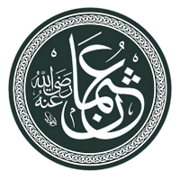 Uthman